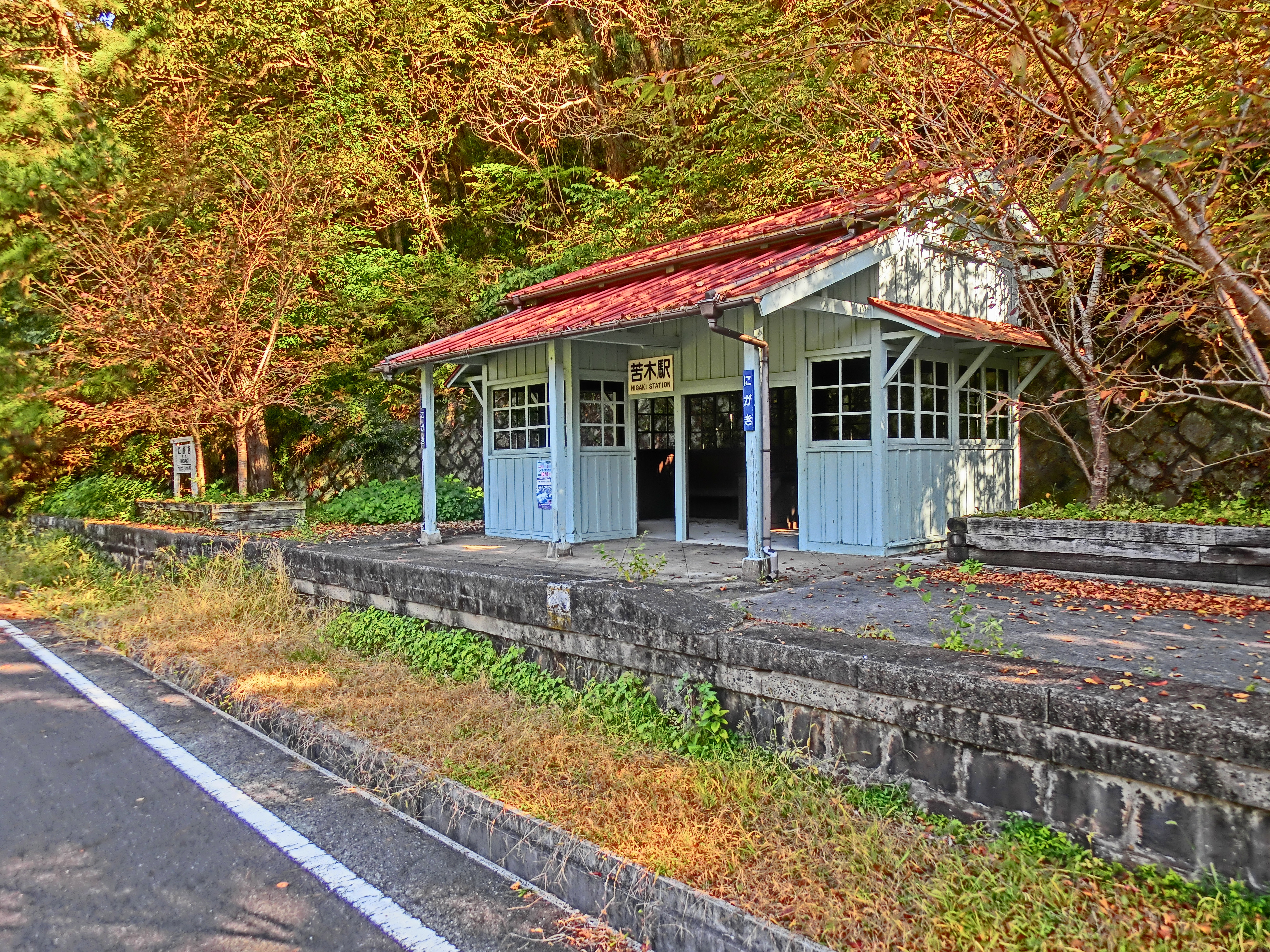 The former Nigaki Station on the Dowa Mining Katakami Railway in Okayama Prefecture, Japan